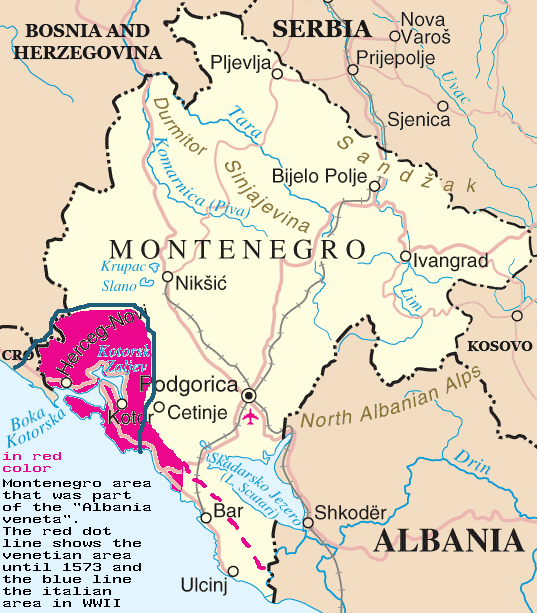 Map of Montenegro showing the area of the "Albania veneta" and the italian area around Cattaro (Kotor) during WWII. Aree del Montenegro che fecero parte dell'Albania veneta (1420-1797) e del Regno d'Italia (1941-1943)